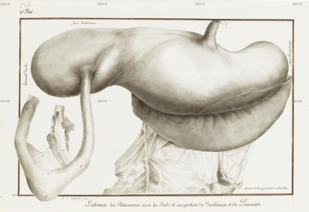 Schema of organs from the rhinoceros of Versailles by P-J Redouté (1793). Scan from the "Collection des vélins du Muséum national d'histoire naturelle - portefeuille 65".